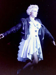 Wembley Stadium Londen Engeland juli '87